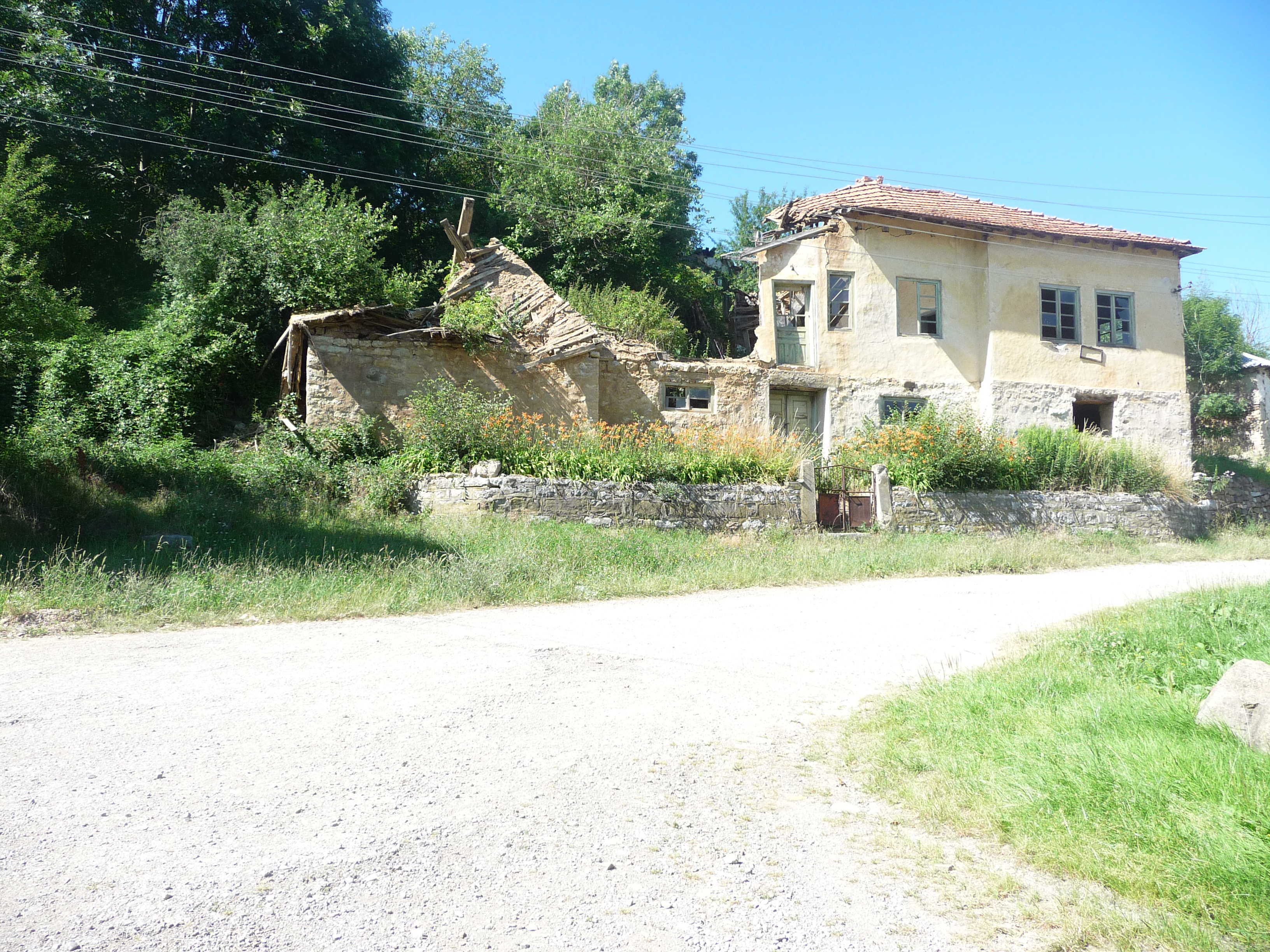 A ruined house in the center of Kamenitsa, Western Bulgarian Outlands, today in municipality of Dimitrovgrad (Tsaribrod), Serbia.